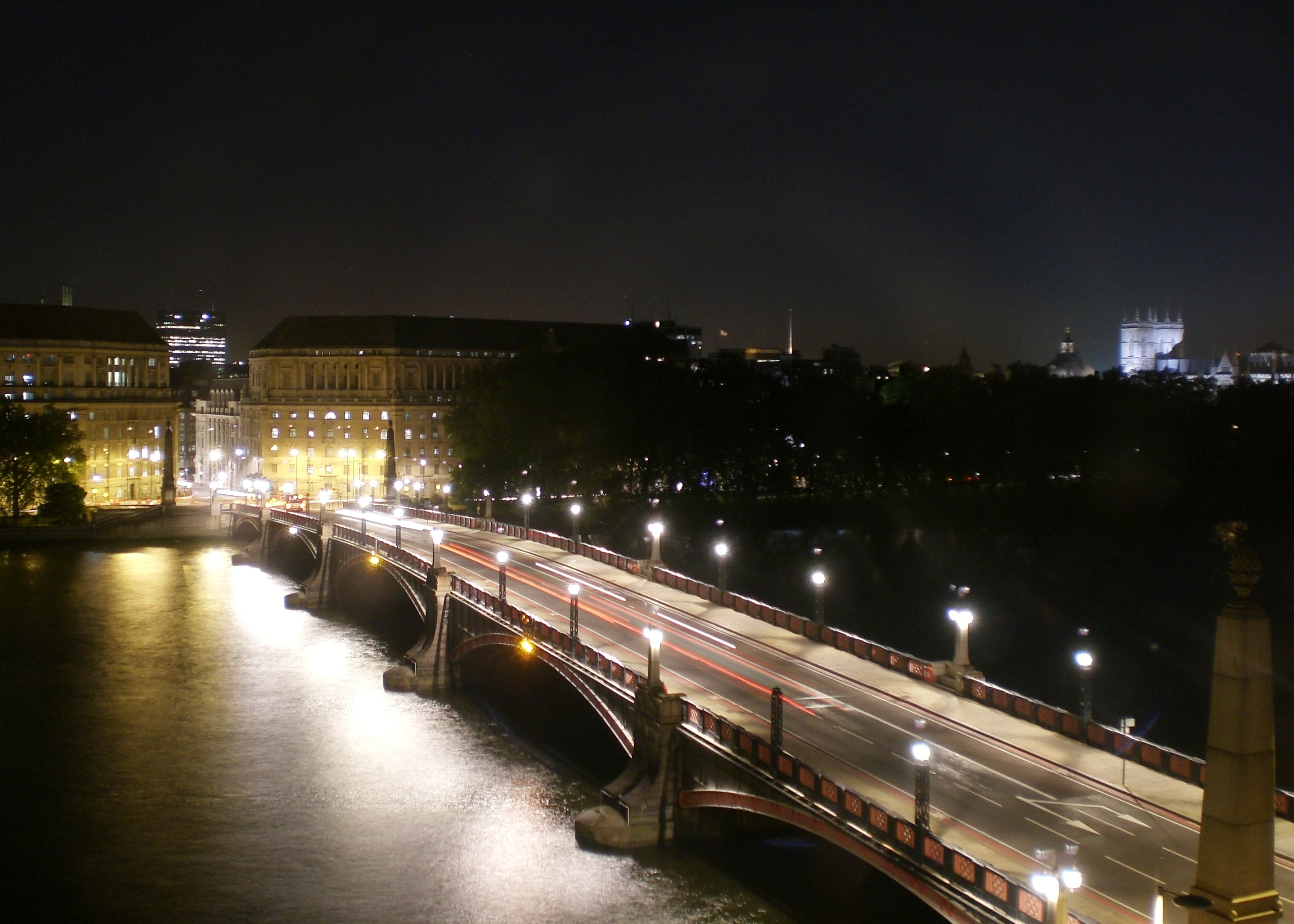 Thames House (home of MI5) and Lambeth Bridge at night